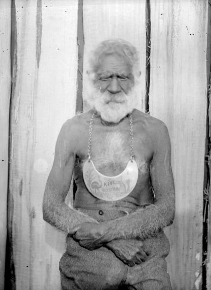 King Merriman wearing his badge of office; King Merriman was leader of the Yuin people, south coast of New South Wales, Australia.